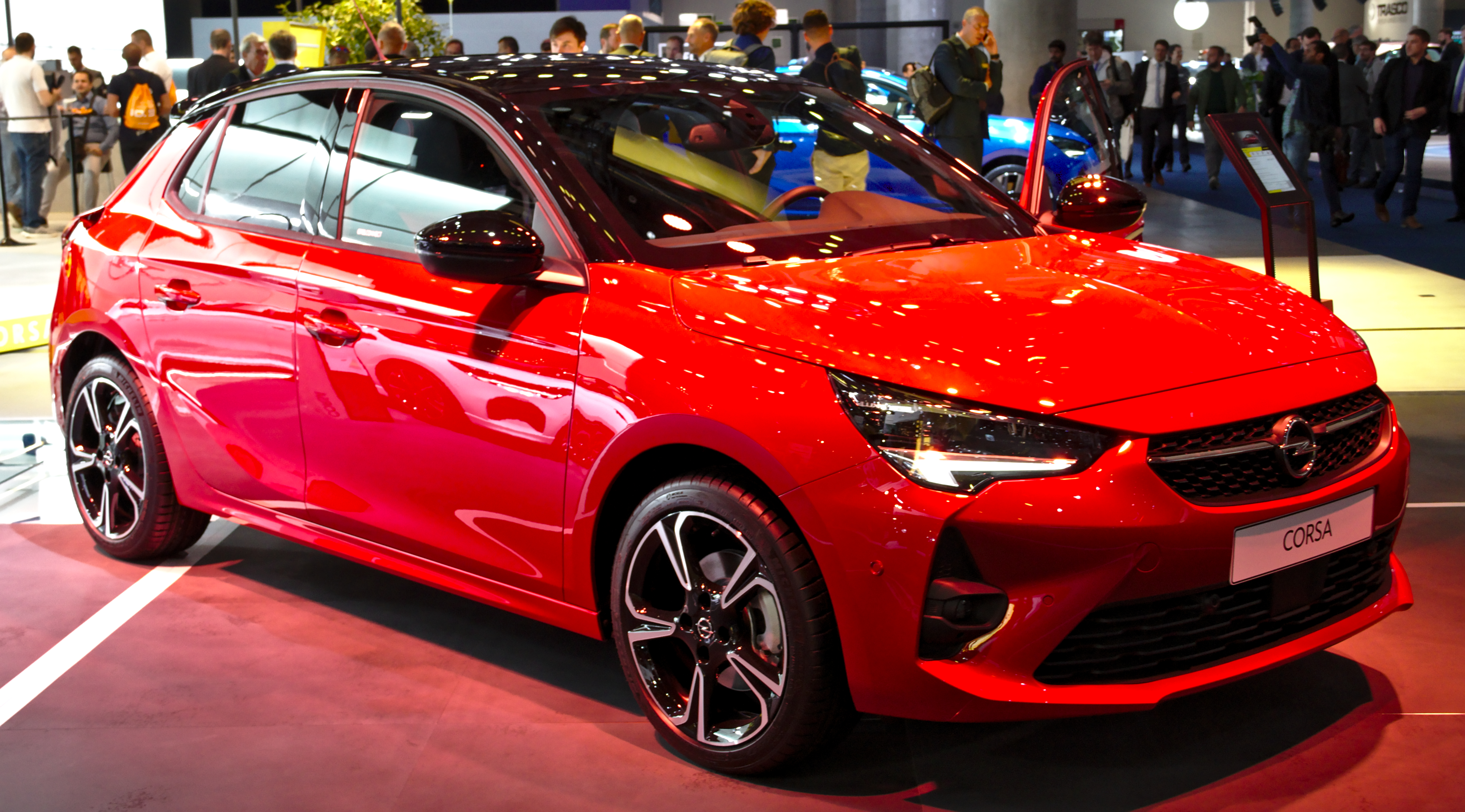 Opel_Corsa_F at IAA 2019